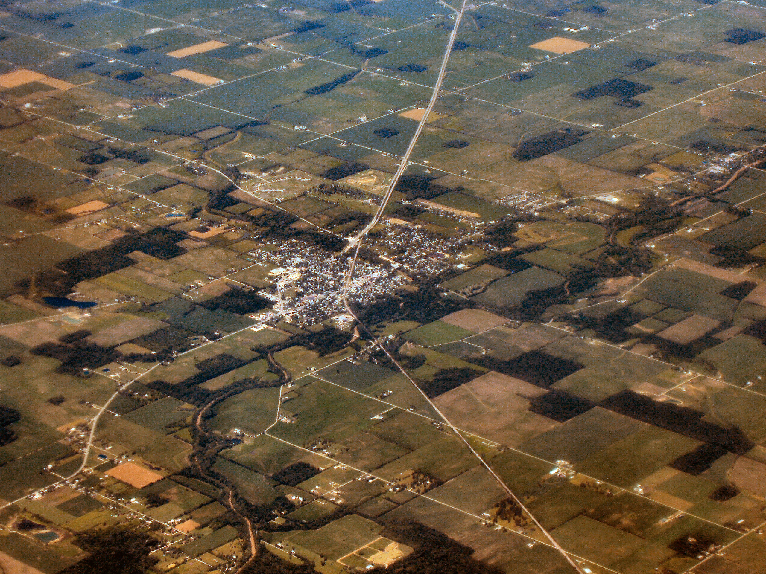 Albany, Indiana from the air, looking northeast.